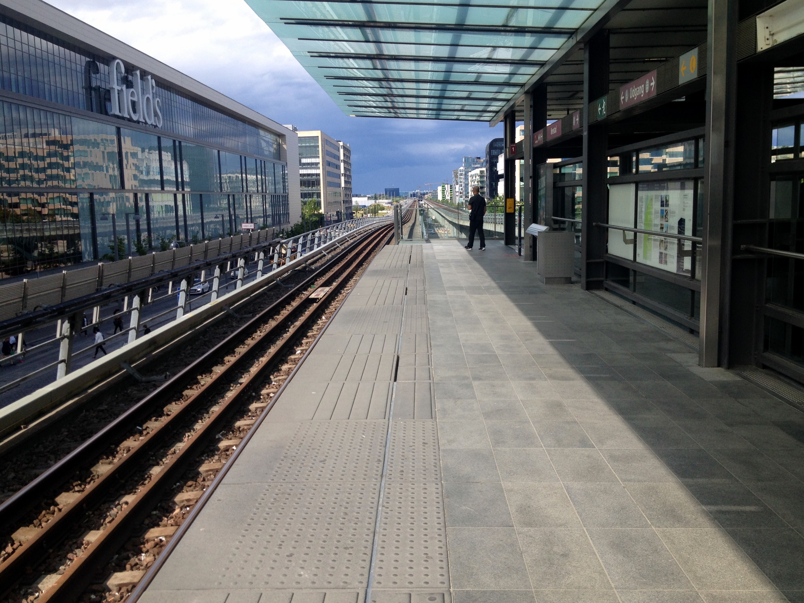 Ørestad Station.